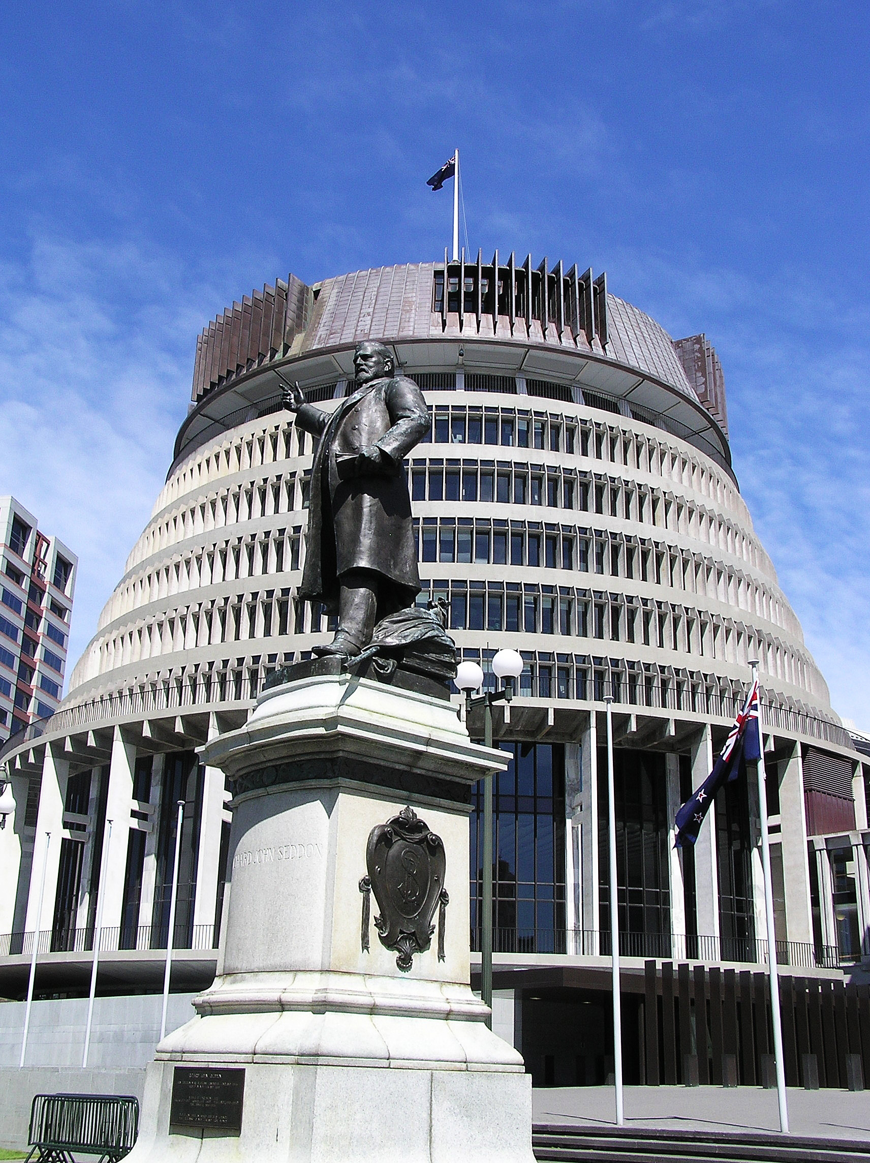 Government buildings in Wellington, New Zealand ('The Beehive') and statue of Richard John Seddon. The statue is listed with the New Zealand Historic Places Trust, Register number 230, and was built in 1915.